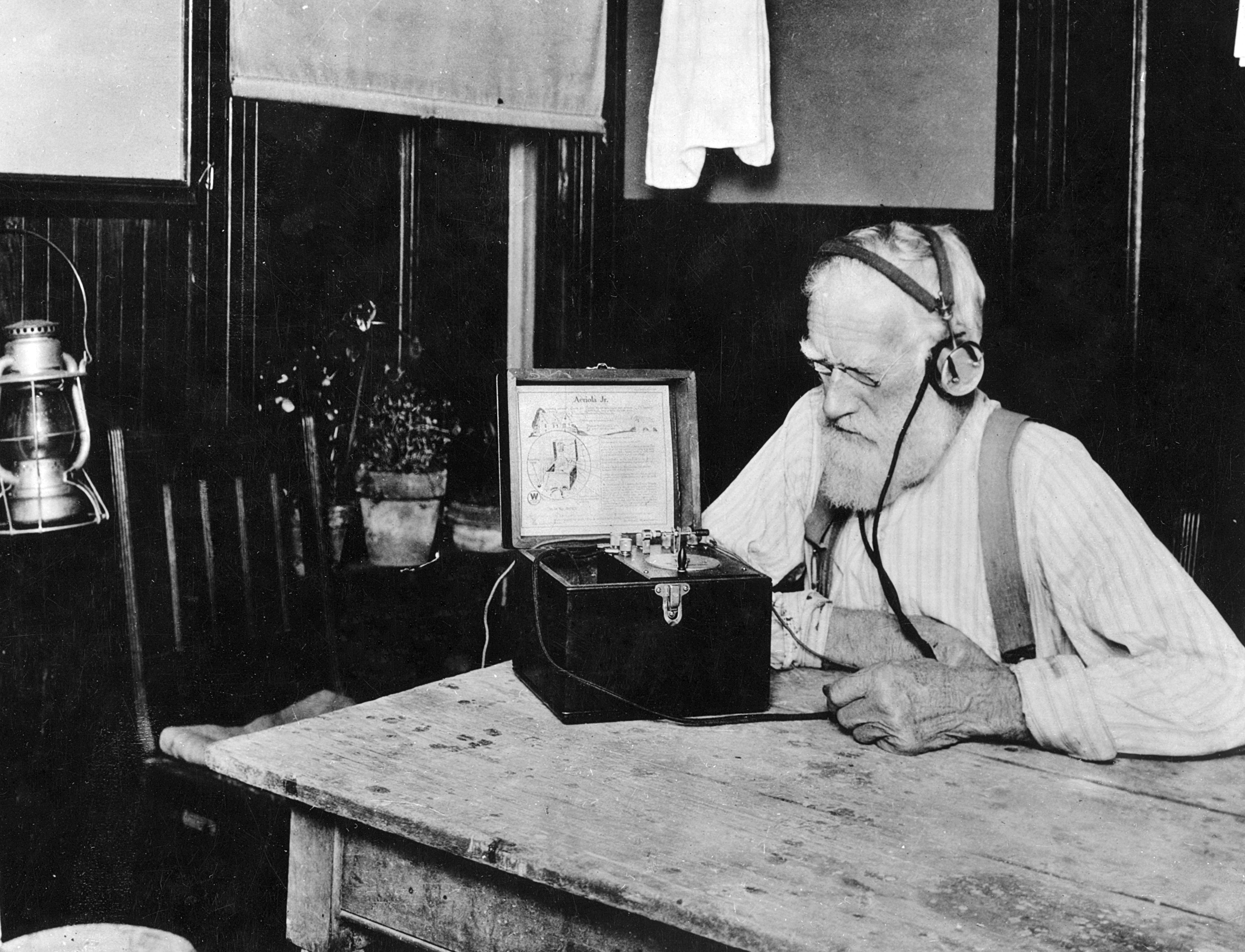 Farmer in 1923 listening to crop reports broadcast from Washington D.C. using a crystal radio. The early crystal radio had a "cat whisker detector" consisting of a fine wire on an adjustable arm that touched the surface of a crystal of the mineral galena, which had to be adjusted before each use. The user poked the "cat's whisker" wire around on the crystal surface until the device began working and the radio station was audible in the earphones. The information farmers heard through their earphones helped them decide what crops to raise and when to sell.